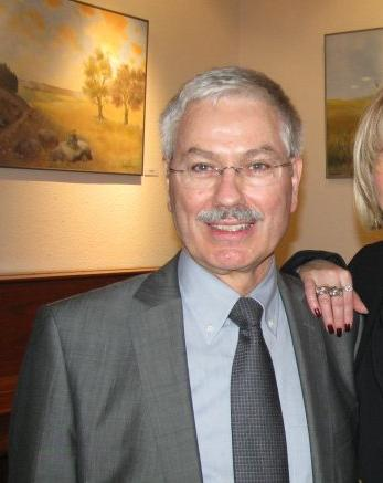 Rudolph Kujath